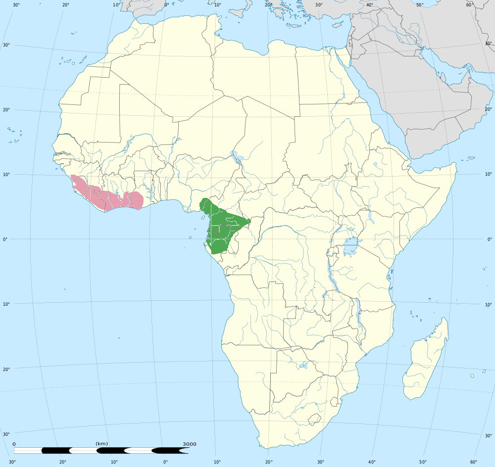 Distribution of Picathartes gymnocephalus (pink) and Picathartes oreas (green). Own work based on & base map File:Africa location map.svg